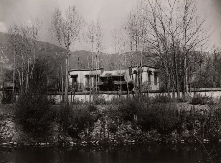 View of the Dekyi Lingka, the residence of the British Mission in Lhasa, set amongst trees in the grounds belonging to Kundeling Monastery